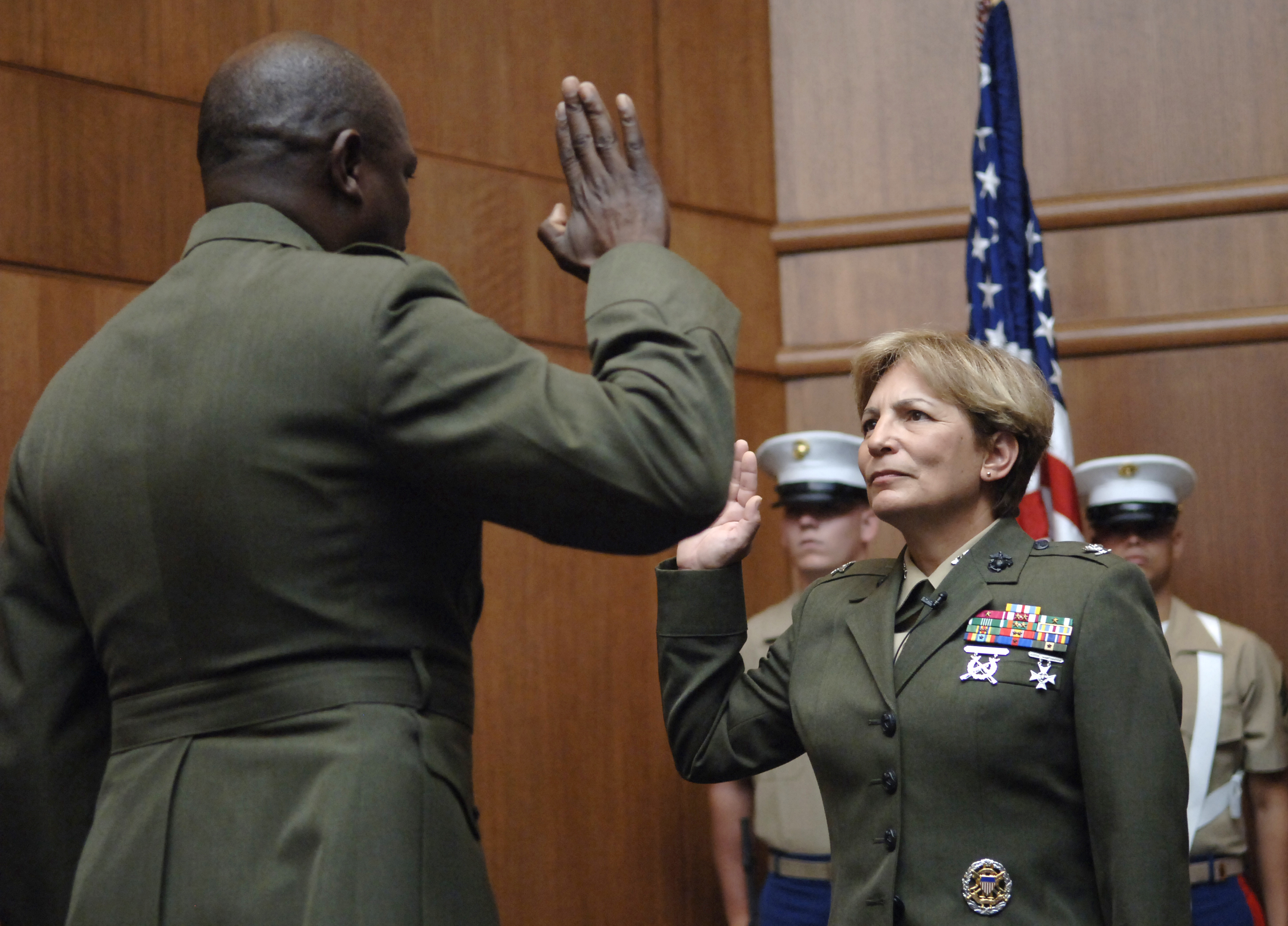 Brigadier General Angela Salinas restates her oath during her promotion ceremony August 2, 2006 aboard Marine Corps Base Quantico, Va. Major General Walter E. Gaskin, commanding general, 2nd Marine Division, hosted the promotion ceremony. Salinas is the first ever Hispanic female to become a general officer in the Marine Corps. (USMC photo, August 2, 2006)